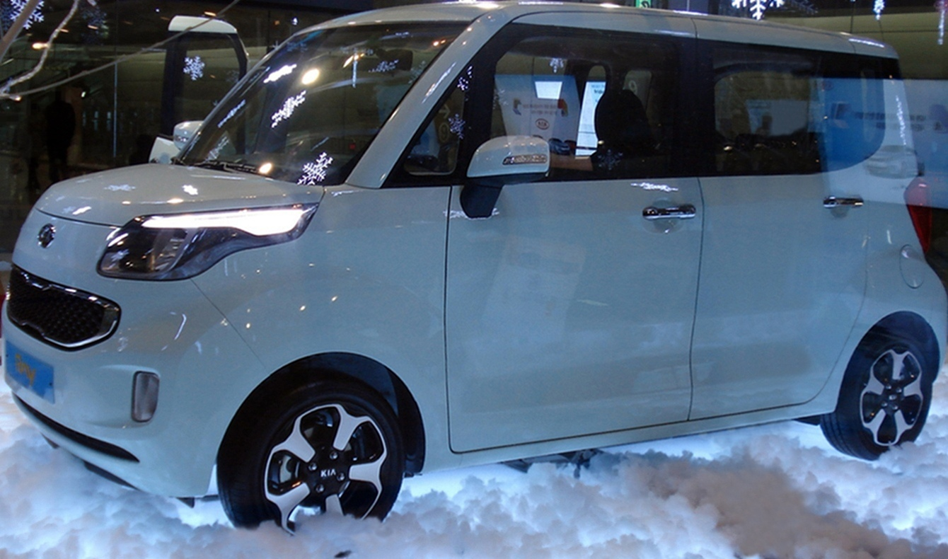 Kia Ray